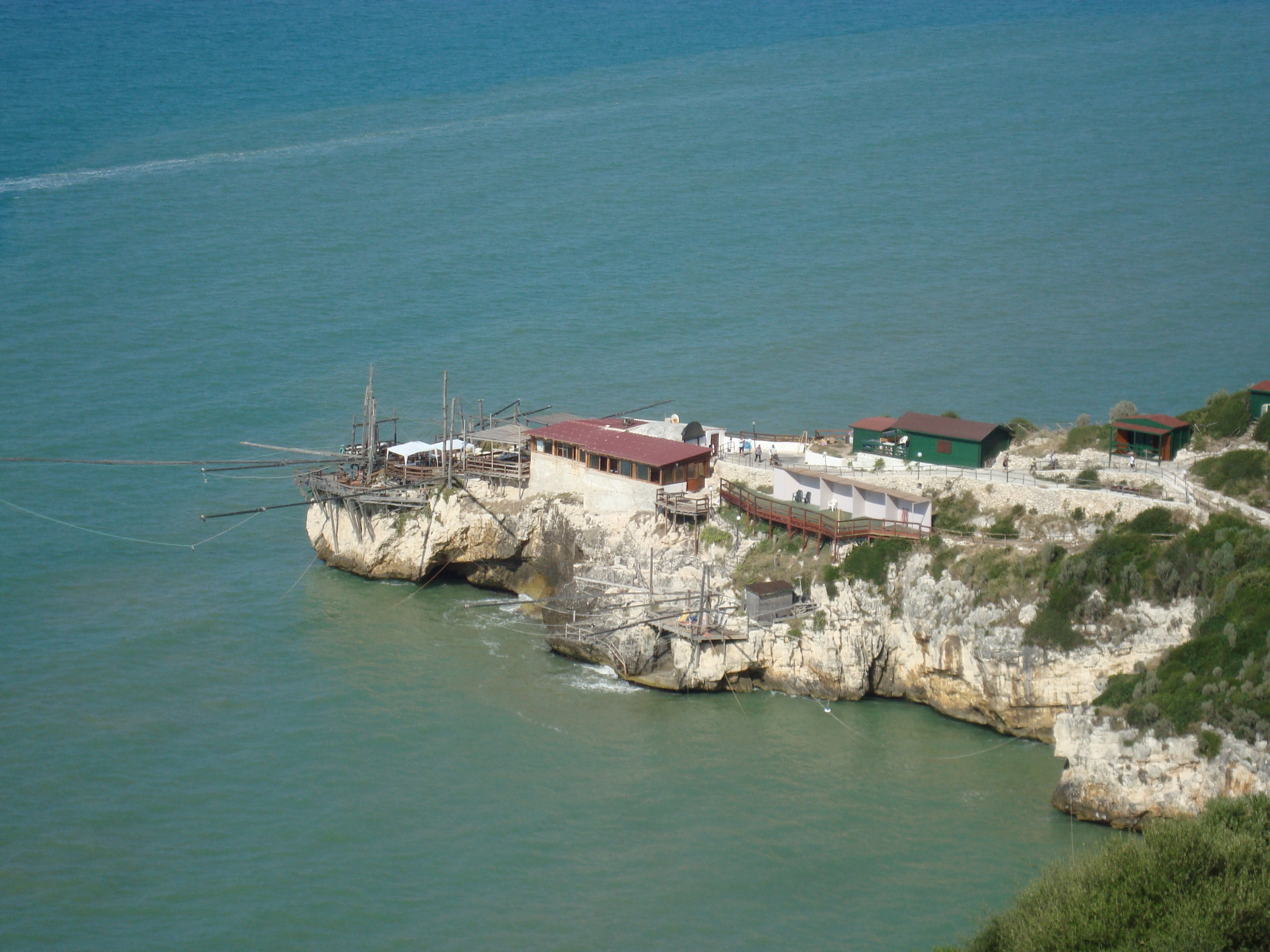 Trabucco in Peschici in Apulia